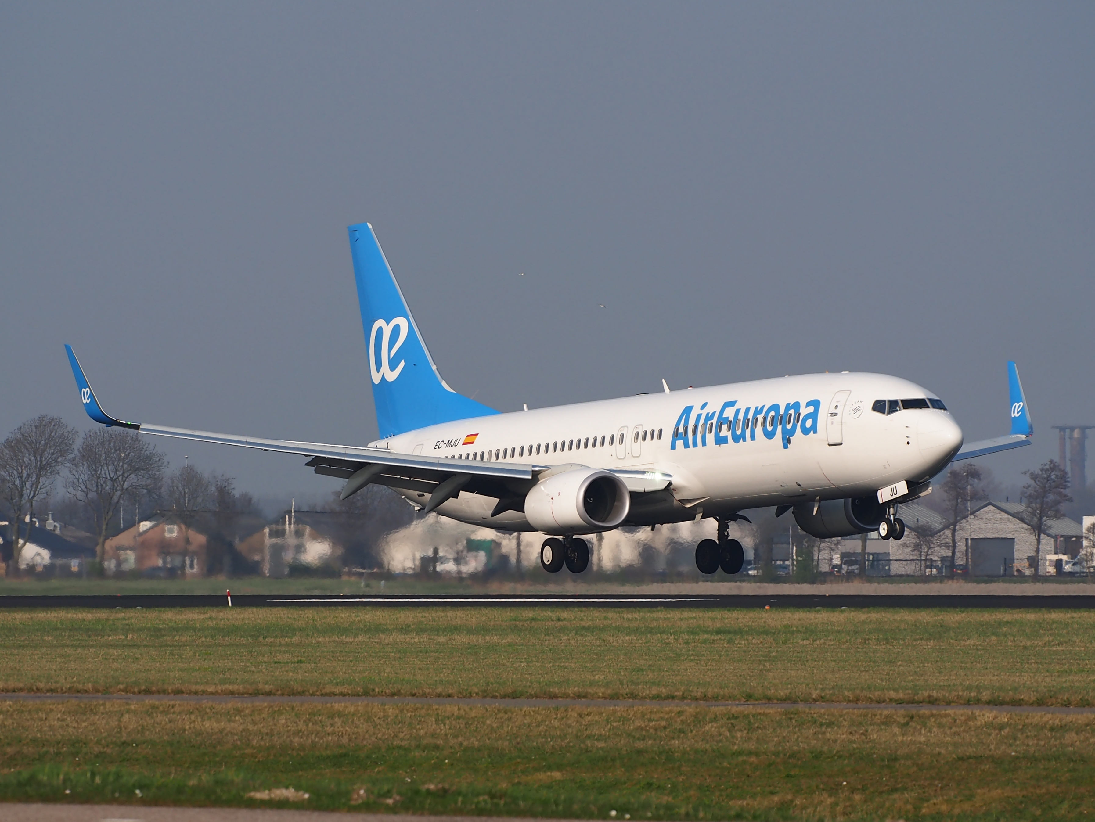 Photo taken at Schiphol (AMS - EHAM), The Netherlands.